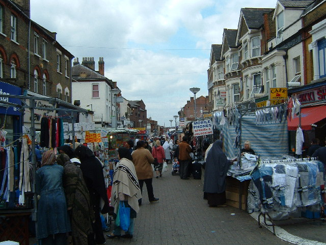 Walthamstow High Street. In the very bottom right of the grid square looking south west. Walthamstow market runs the whole length of the high street and is probably the longest street market in Europe.